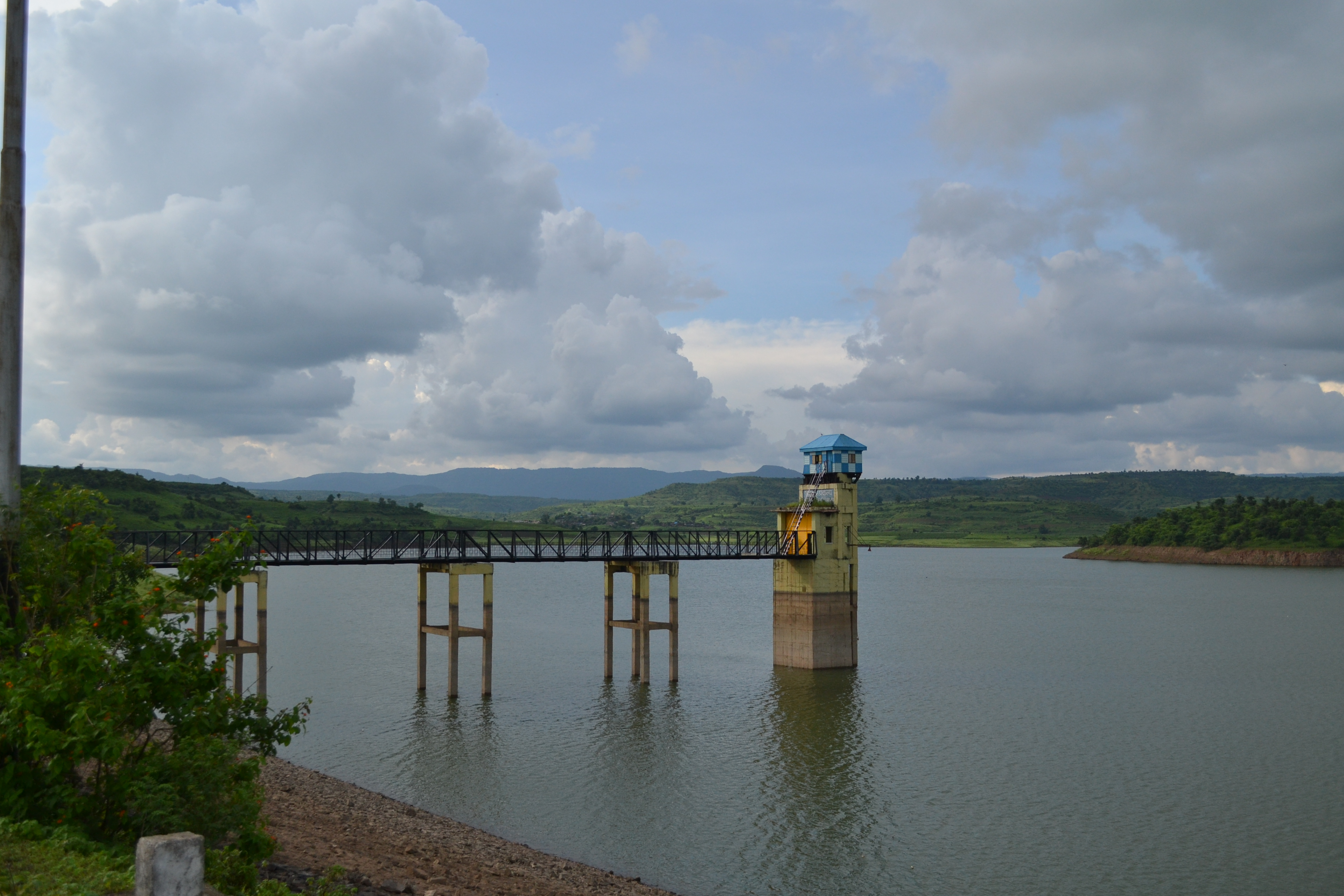 Shahanur Dam Photo